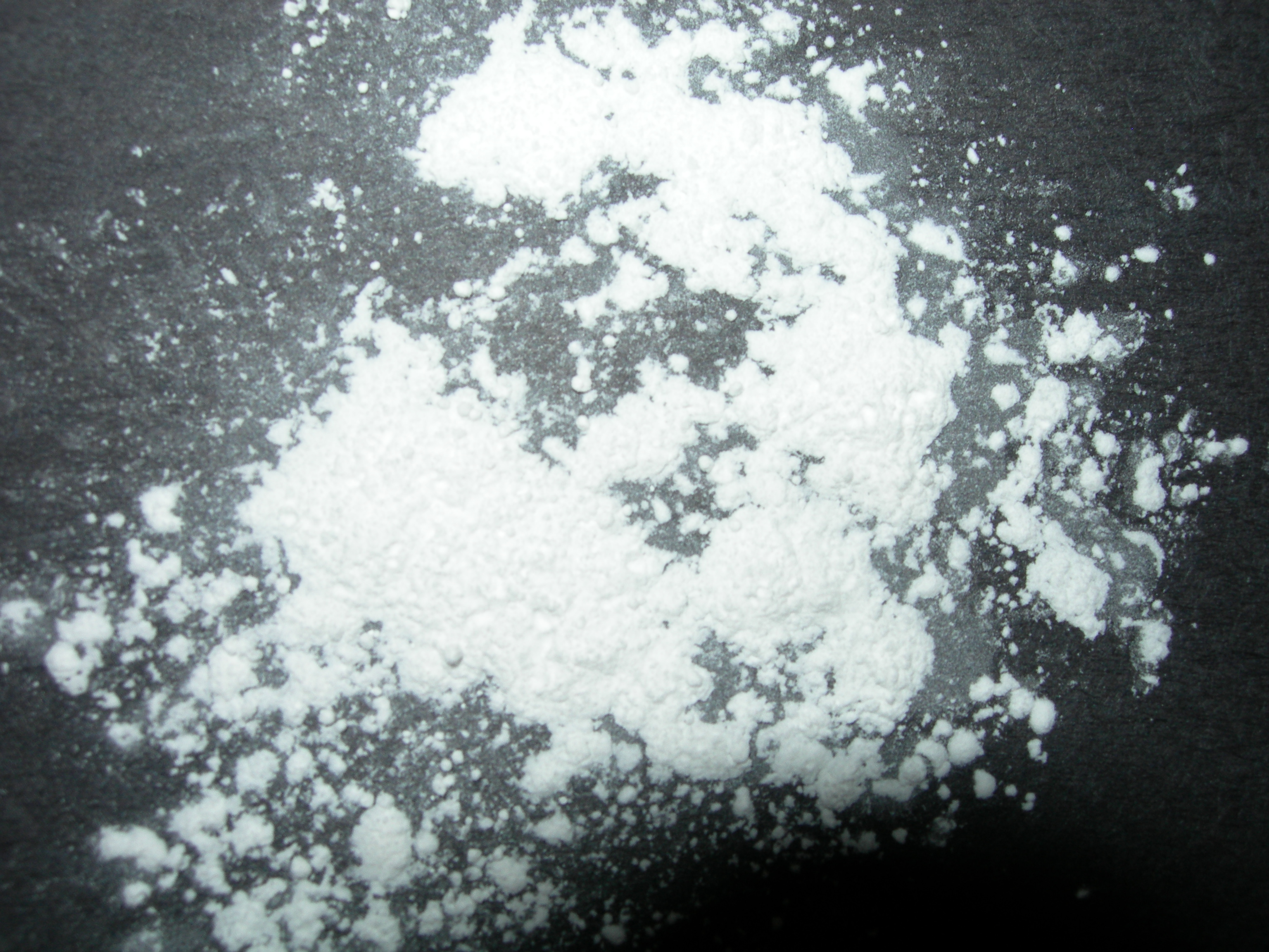 Talcum powder on black construction paper for contrast.